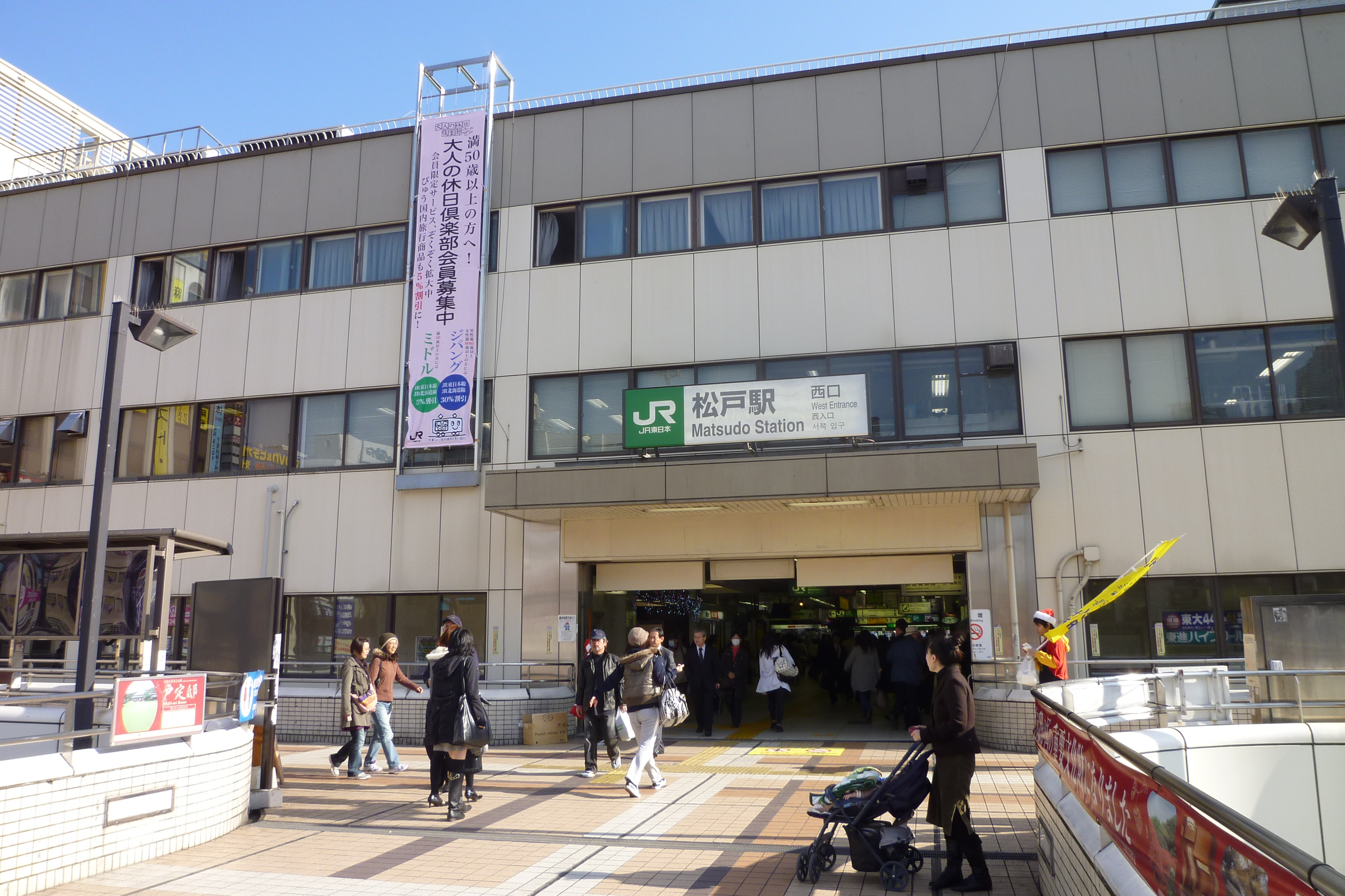 Matsudo Station (West exit)